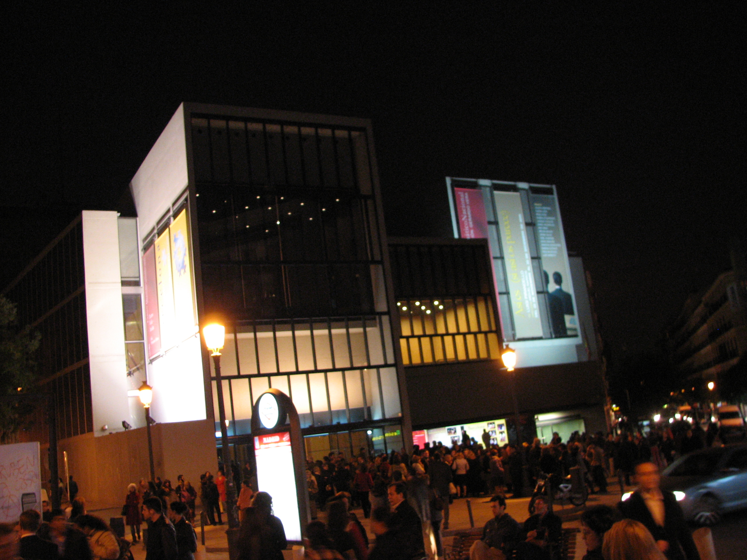 a theater at the Lavapies square.